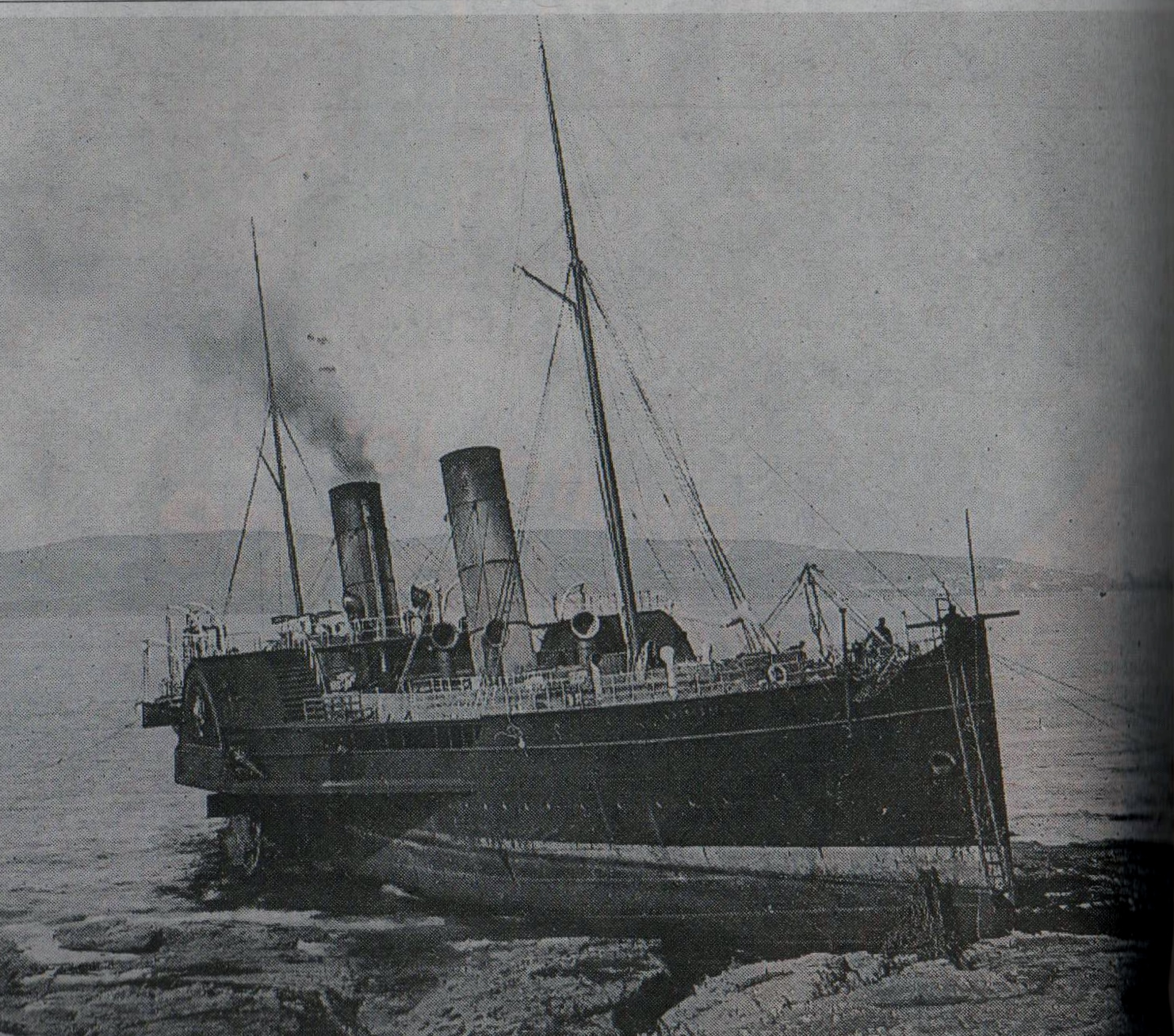 Mona's Isle pictured aground at Poolvaish, September 1892.